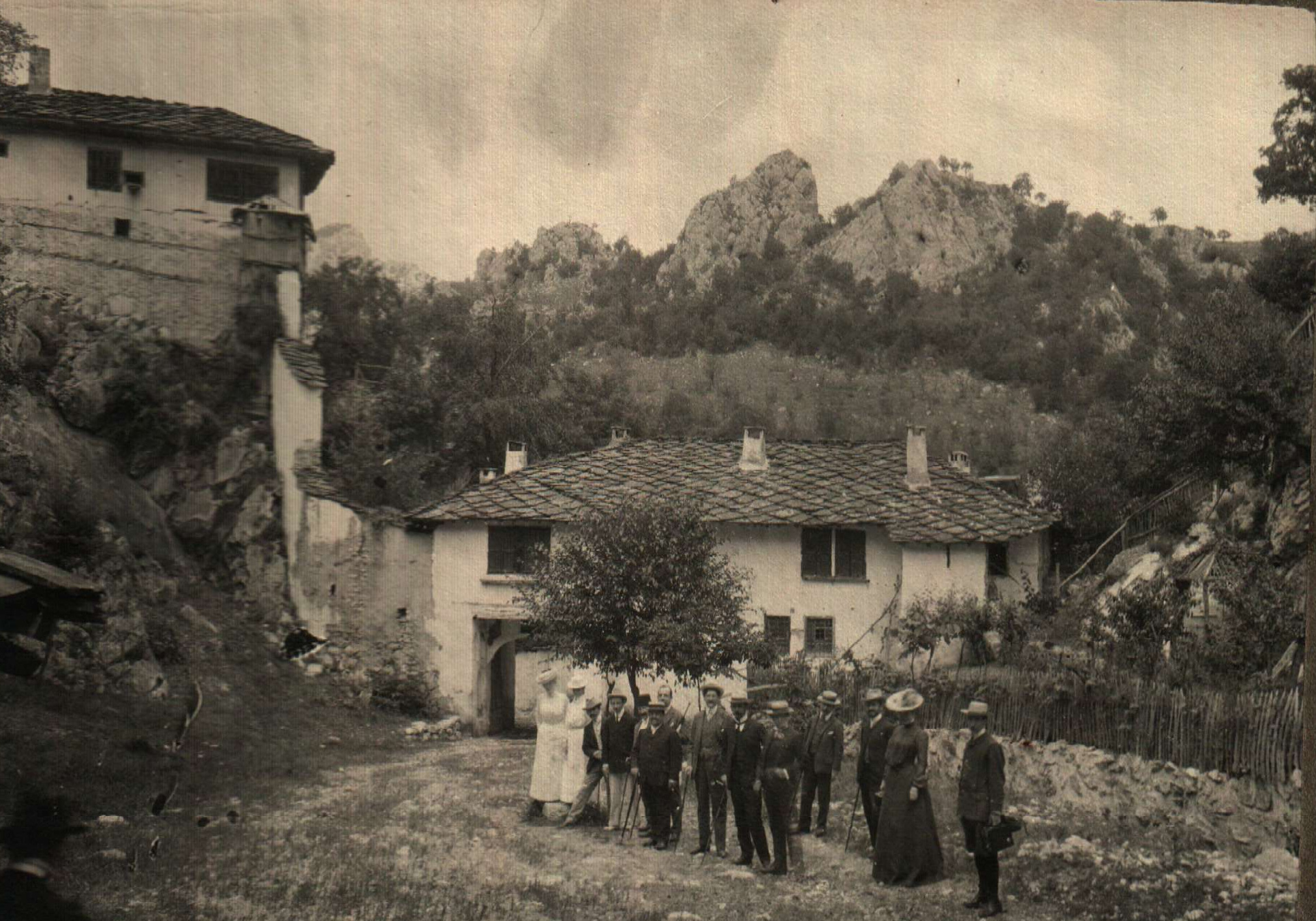 Cherepish Monastery, Bulgaria